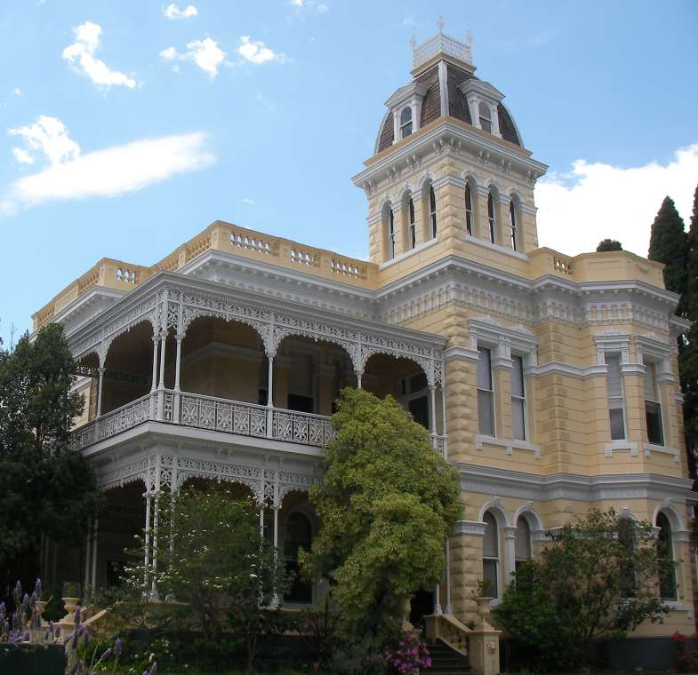 Goodrest mansion. Cnr Leopold Street and Domain Road. South Yarra, Victoria. Magnificent Victorian filigree and second empire style mansion